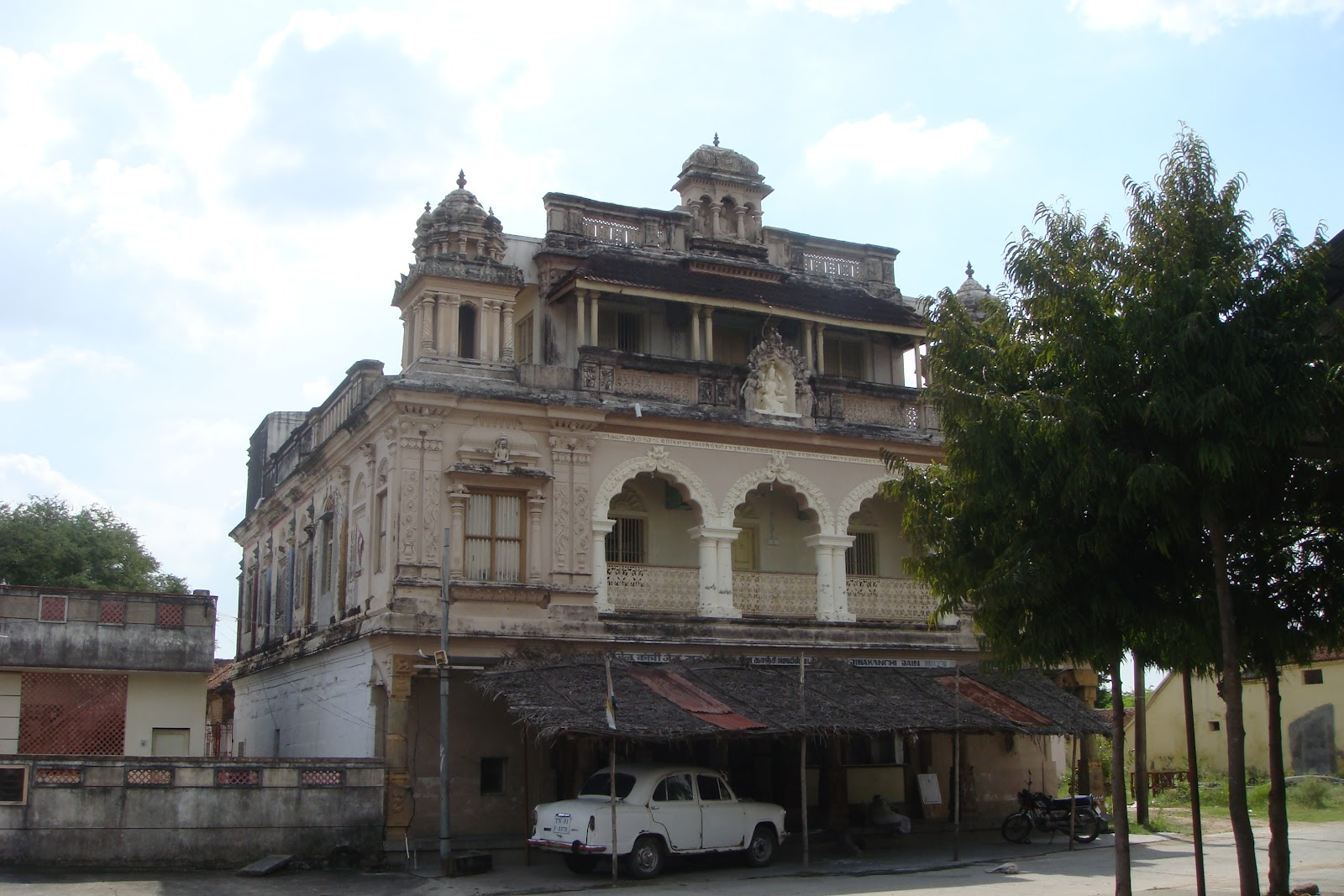 This is the residence of Bhattaraka Laxmisena at the Mel Sithamur Jain Math (Jina Kanchi Jain Math), Gingee, Villupuram district, Tamil Nadu, India. Bhattaraka Laxmisena is the religious head of the Tamil Jains.